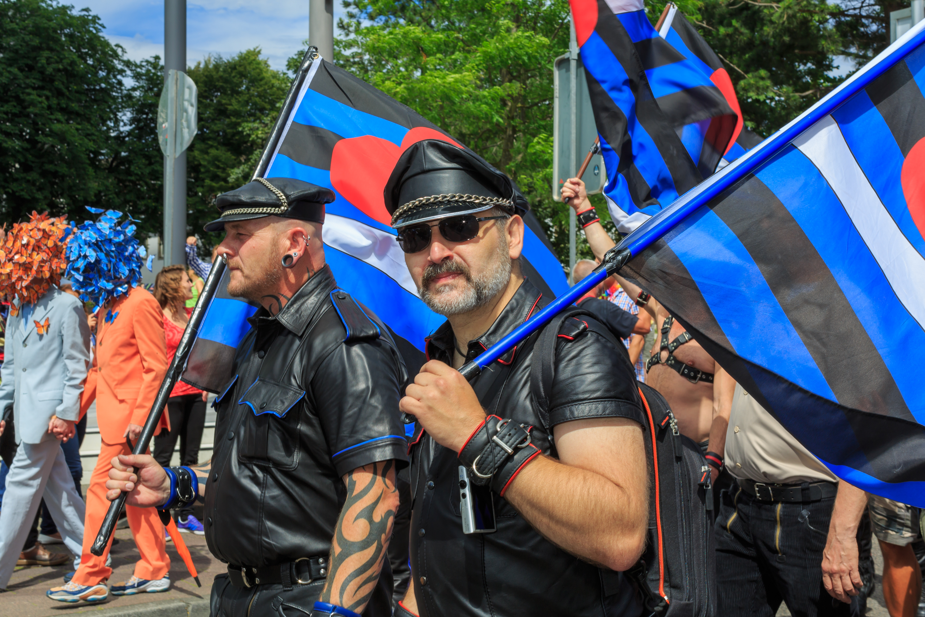 Cologne, Germany: Leather gays at Cologne Pride Parade 2014